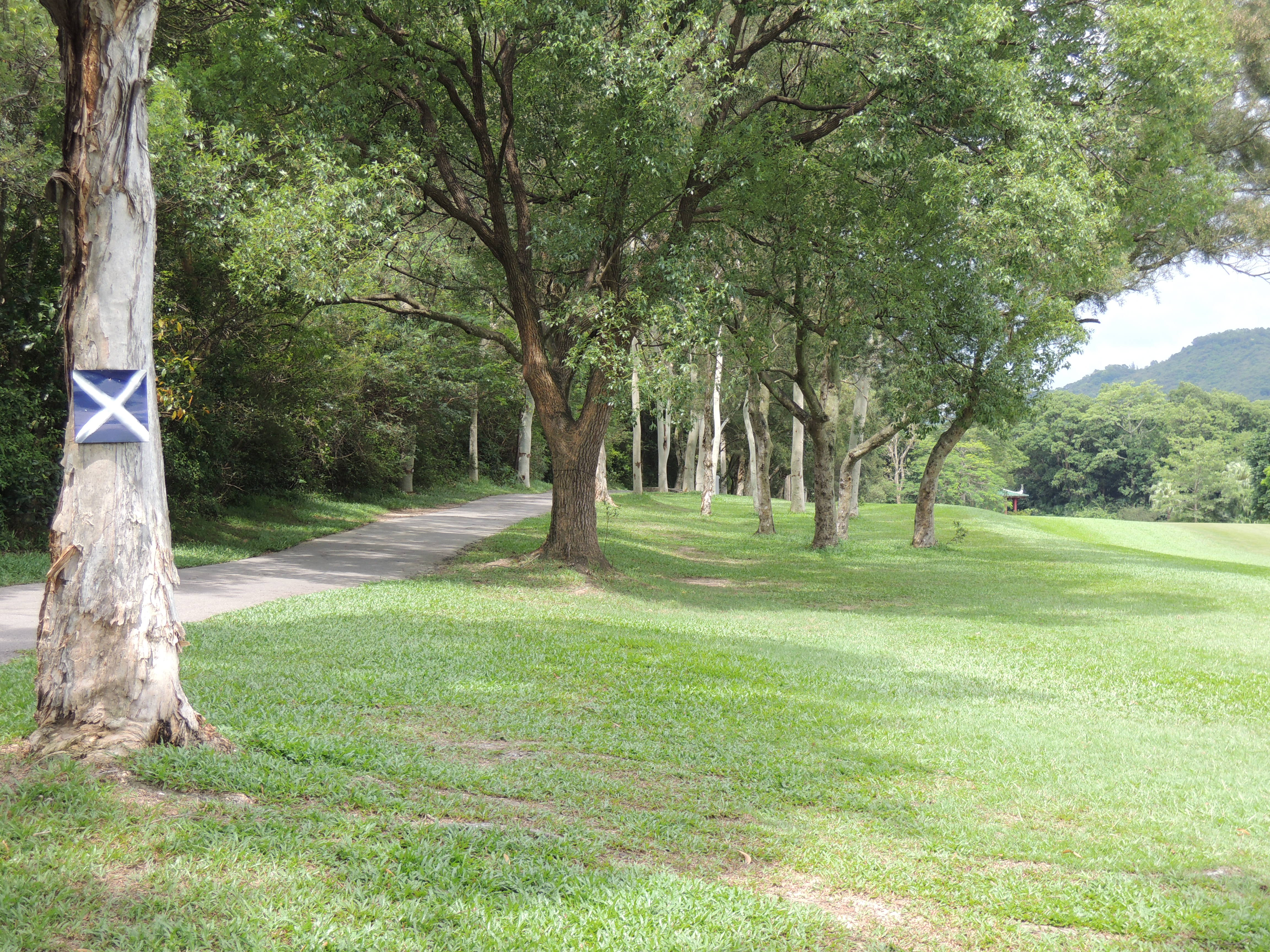 Hole 14, Old Course, Fanling